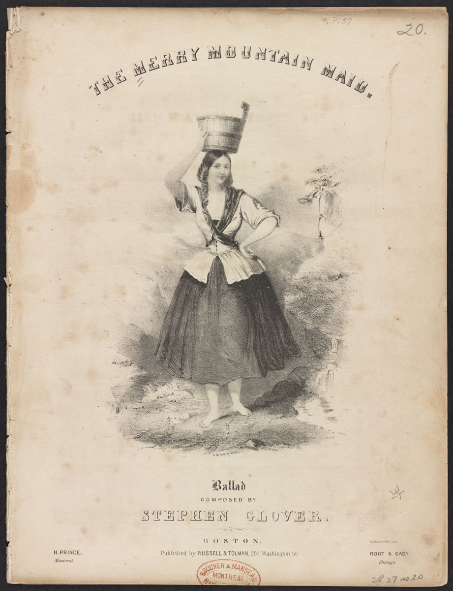 Accession No.: 07_07_000143 Call Number: no. 20 of S.P.37 Lithographer: Bufford, John H. Title of Lithograph: Merry Mountain Maid Composer: Glover, Stephan Title of Composition: Merry Mountain Maid Place of Publication: Boston Publisher: Russell & Tolman BPL Department: Music Flickr data on 2011-08-06: Camera: Sinar AG Sinarback 54 FW, Sinar m Tags: dc:identifier=07_07_000143 License: CC BY 2.0 User: Boston Public Library BPL